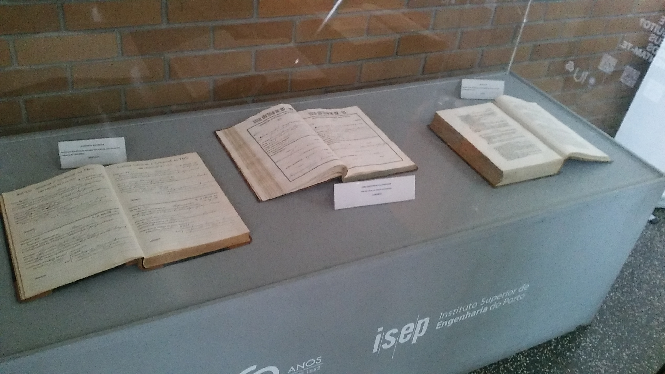 Polytechnic of Porto - ISEP 160 aaniversary exposition